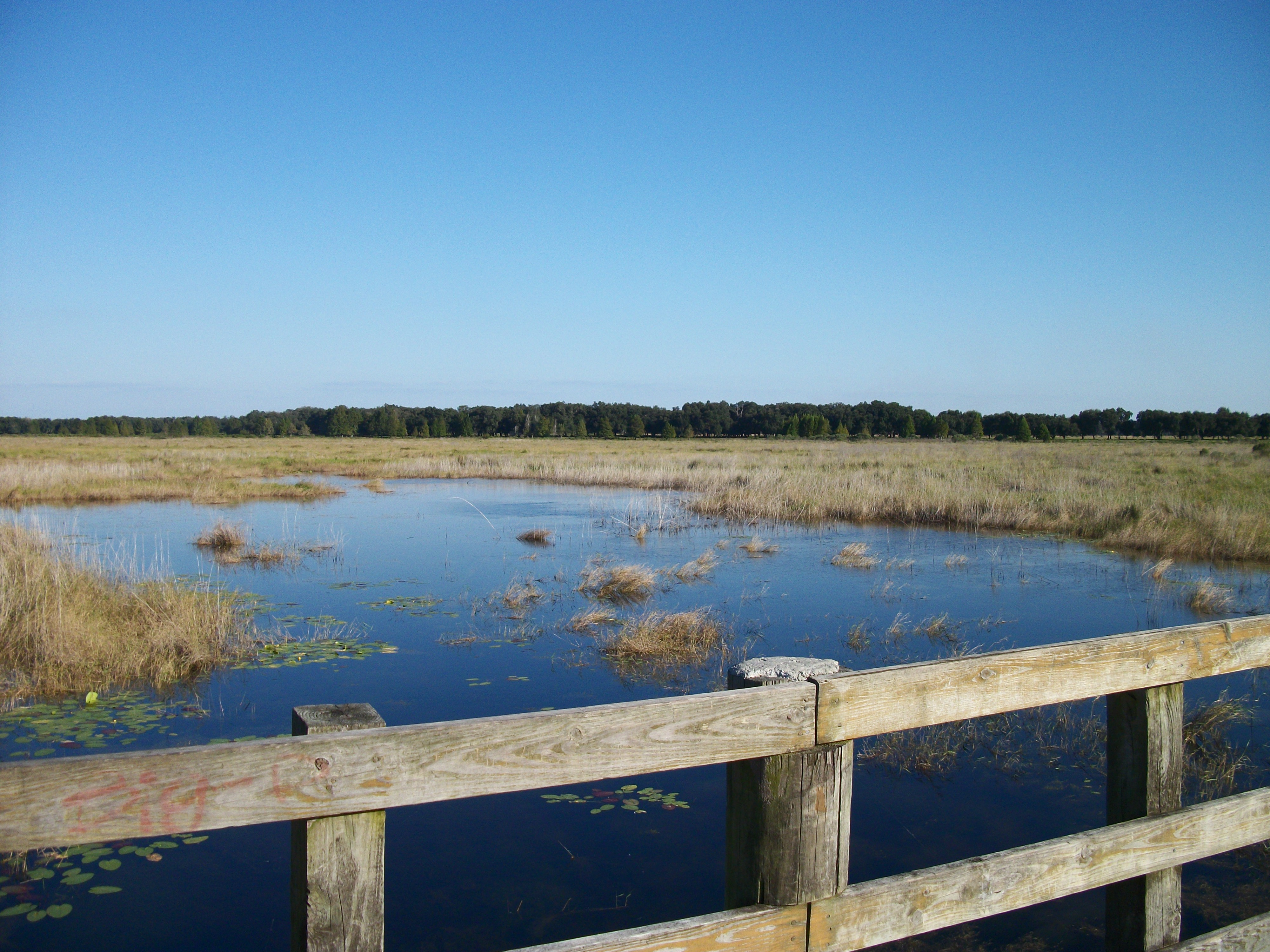 Northeast view of the drought-stricken, and SWFWMD-stricken Crews Lake in Shady Hills, Florida. This lake is the source for the Pithlachascotee River, and is also a SWFWMD source for water in St. Petersburg. Back in the 1990's, the lake flooded as far east as US 41. The lake was at an even lower level in the year before this picture was taken, but although it has gained some more water due to some recent rainstorms, especially during the week this pic is being uploaded on, I wouldn't count on it reaching a normal level anytime soon.